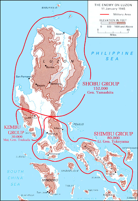 Disposition of the three main japanese Army Groups Shōbu, Shimbu and Kembu, created out of the japanese 14th Area Army, on Luzon, 11th January 1945, at the beginning of the Battle of Luzon